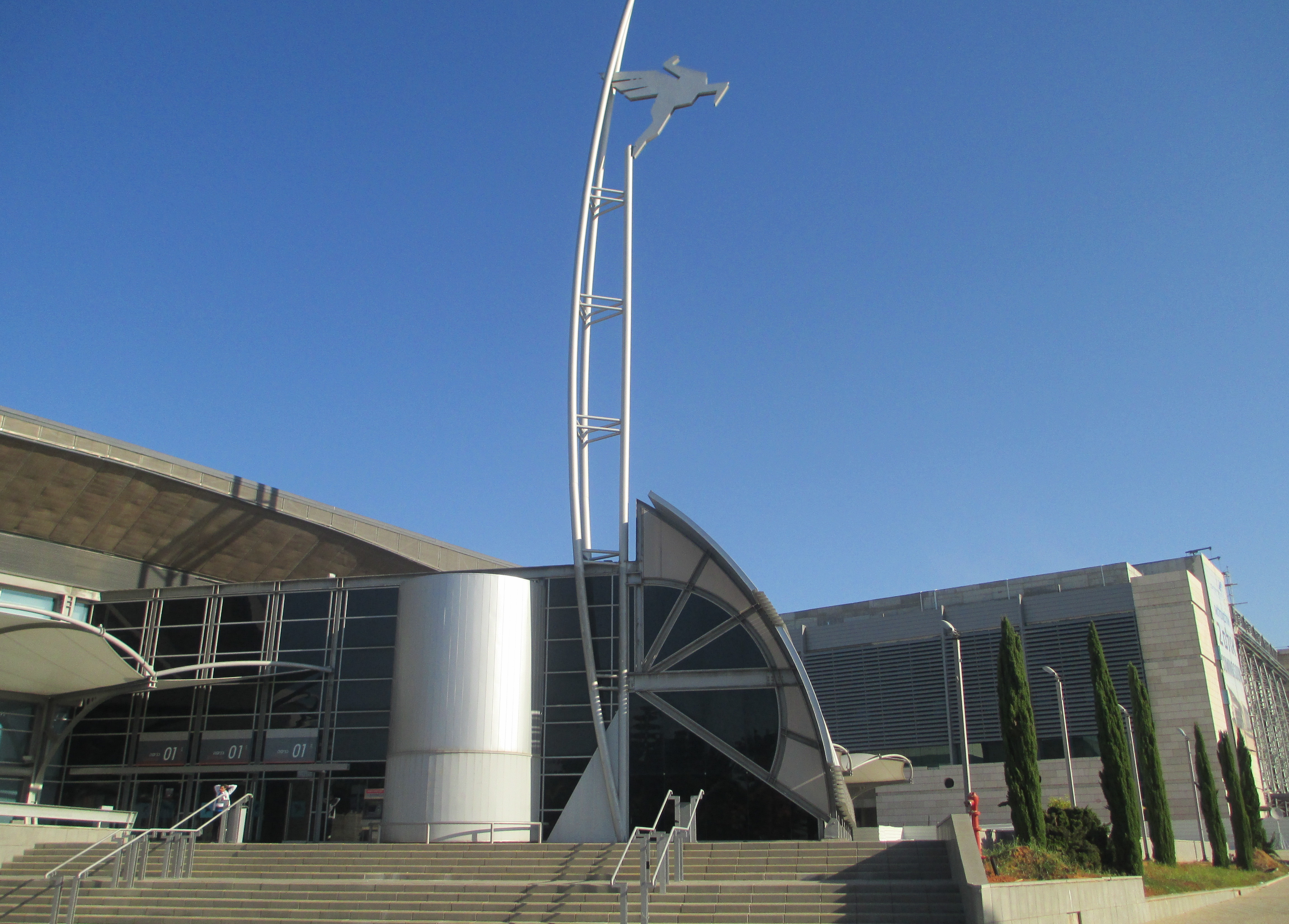 Israel Trade Fairs & Convention Center